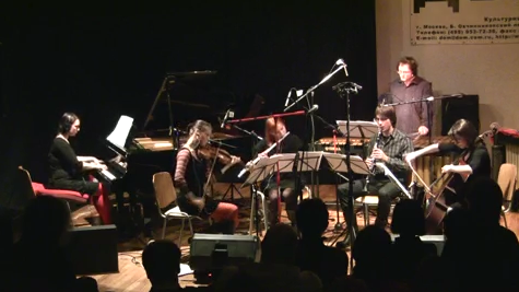 Double Sextet being performed in Russia; the piece is scored for 2 pianos, 2 vibraphones, 2 flutes, 2 clarinets, 2 violins and 2 cellos.